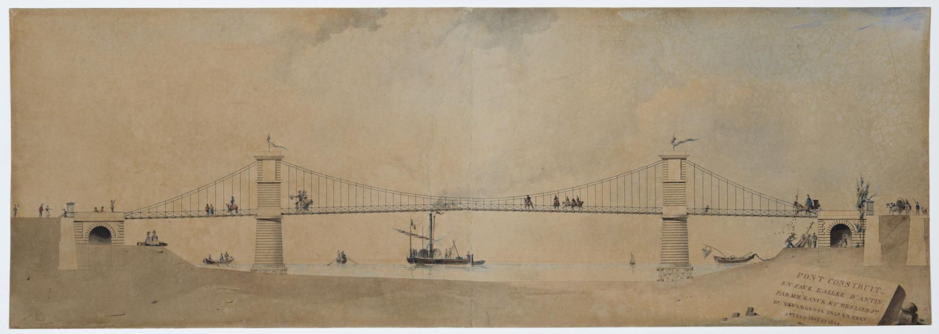 Drawing of the old Pont des Invalides, also called Pont de l'Allée d'Antin (1828-1829)